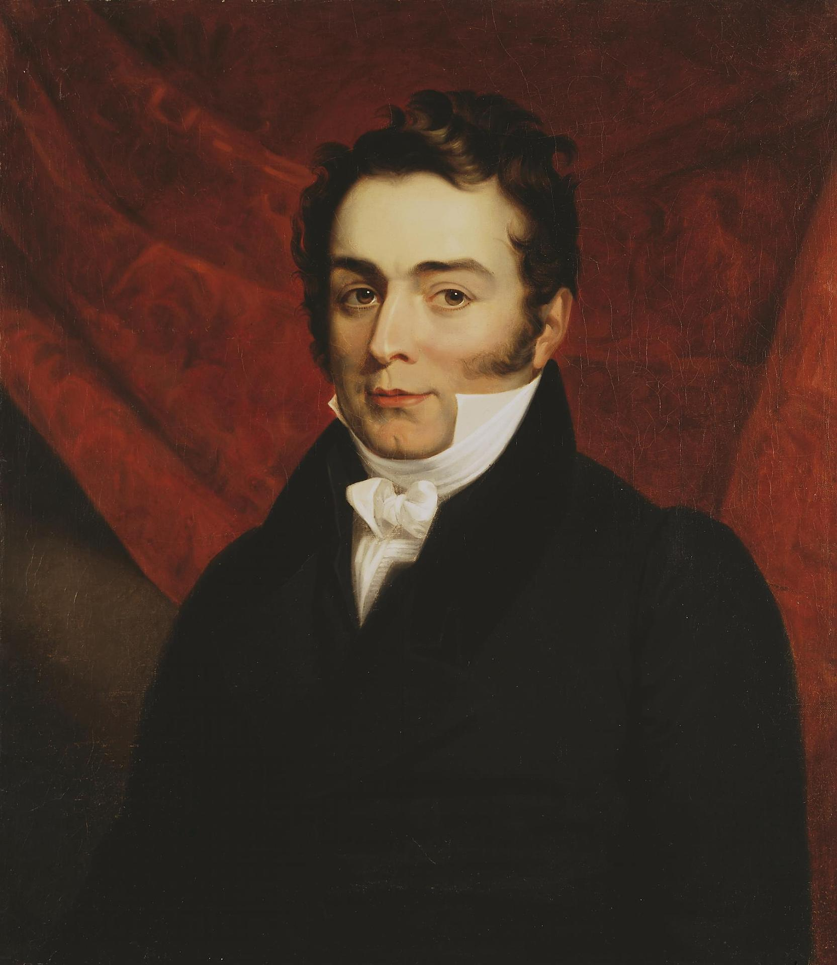 Alexander Ivanovich Ribeaupierre (1781-1865)